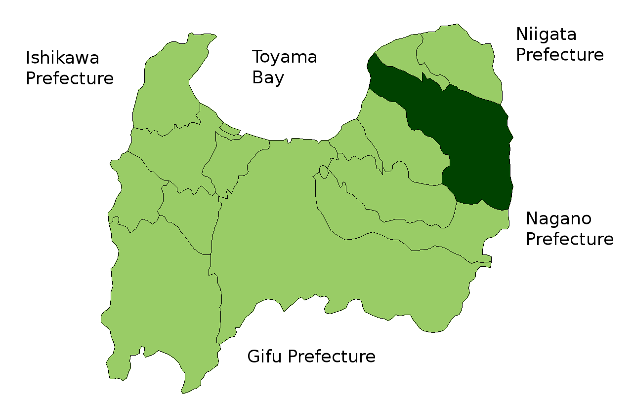 Location Map of Kurobe in Toyama Prefecture, Japan